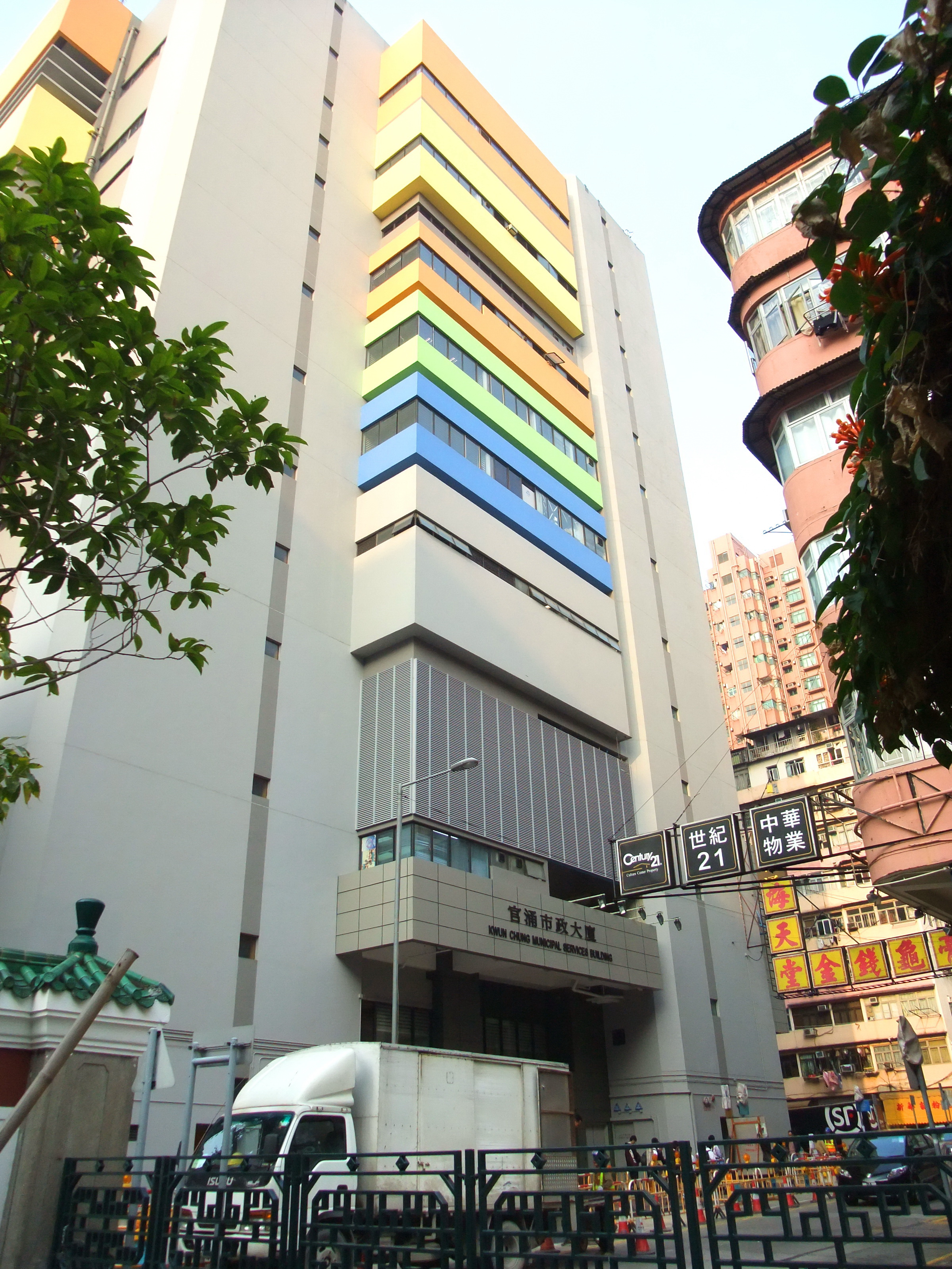 Kwun Chung Municipal Services Building, 17 Bowring Street, Jordon, Kowloon, Hong Kong.